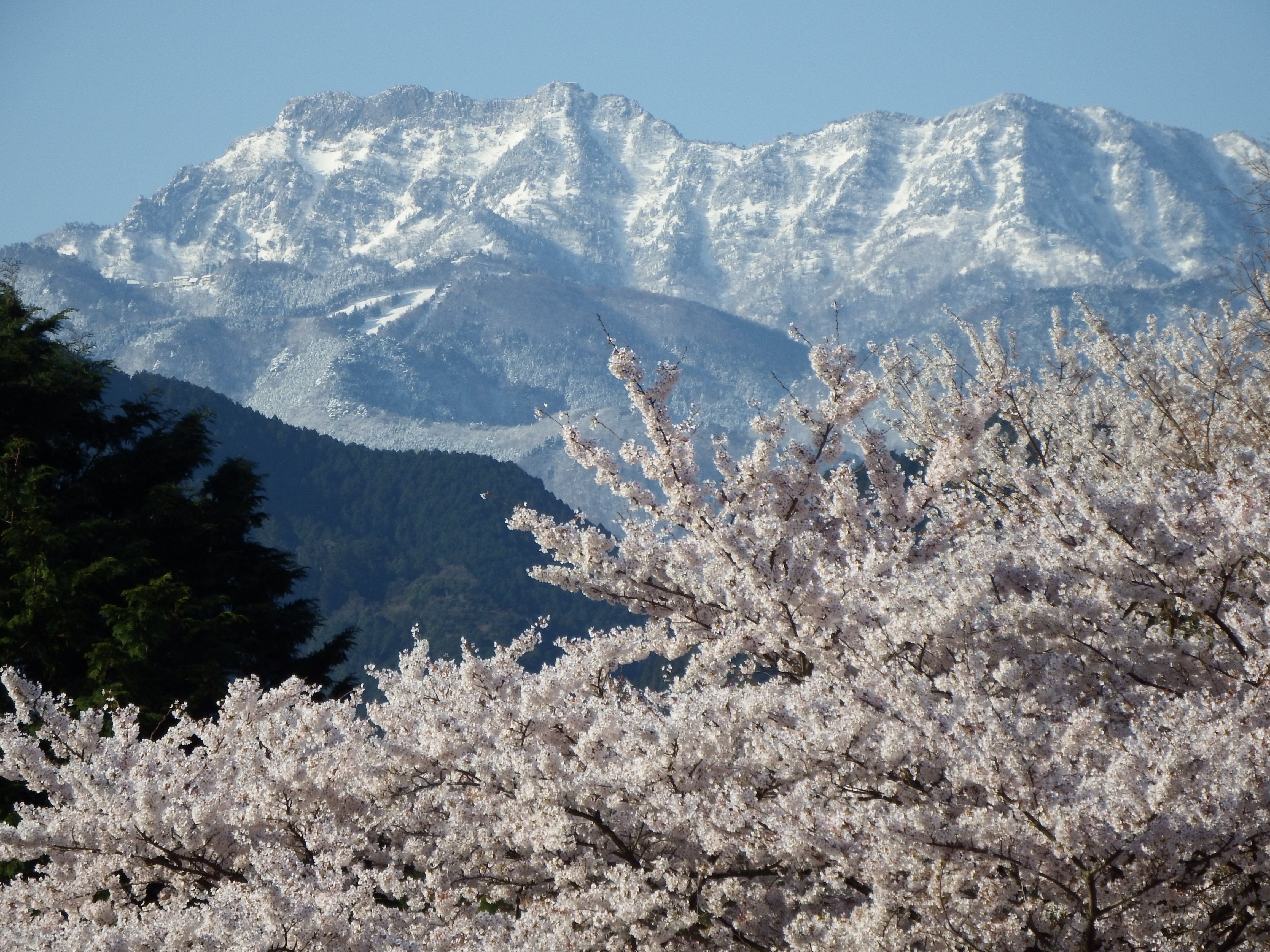 The NNE side of Mount Ishizuchi.